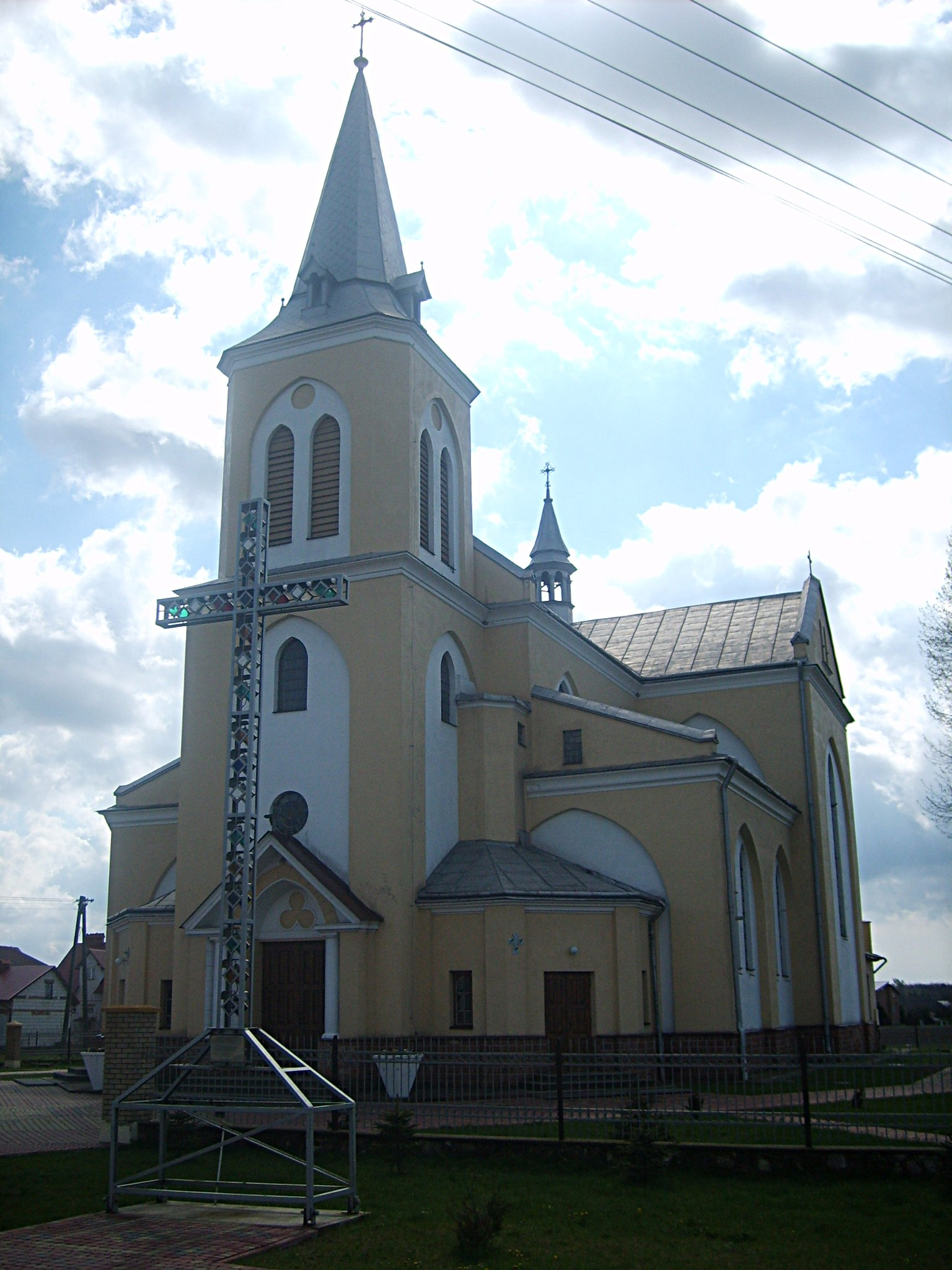 The church of Tryńcza in Poland